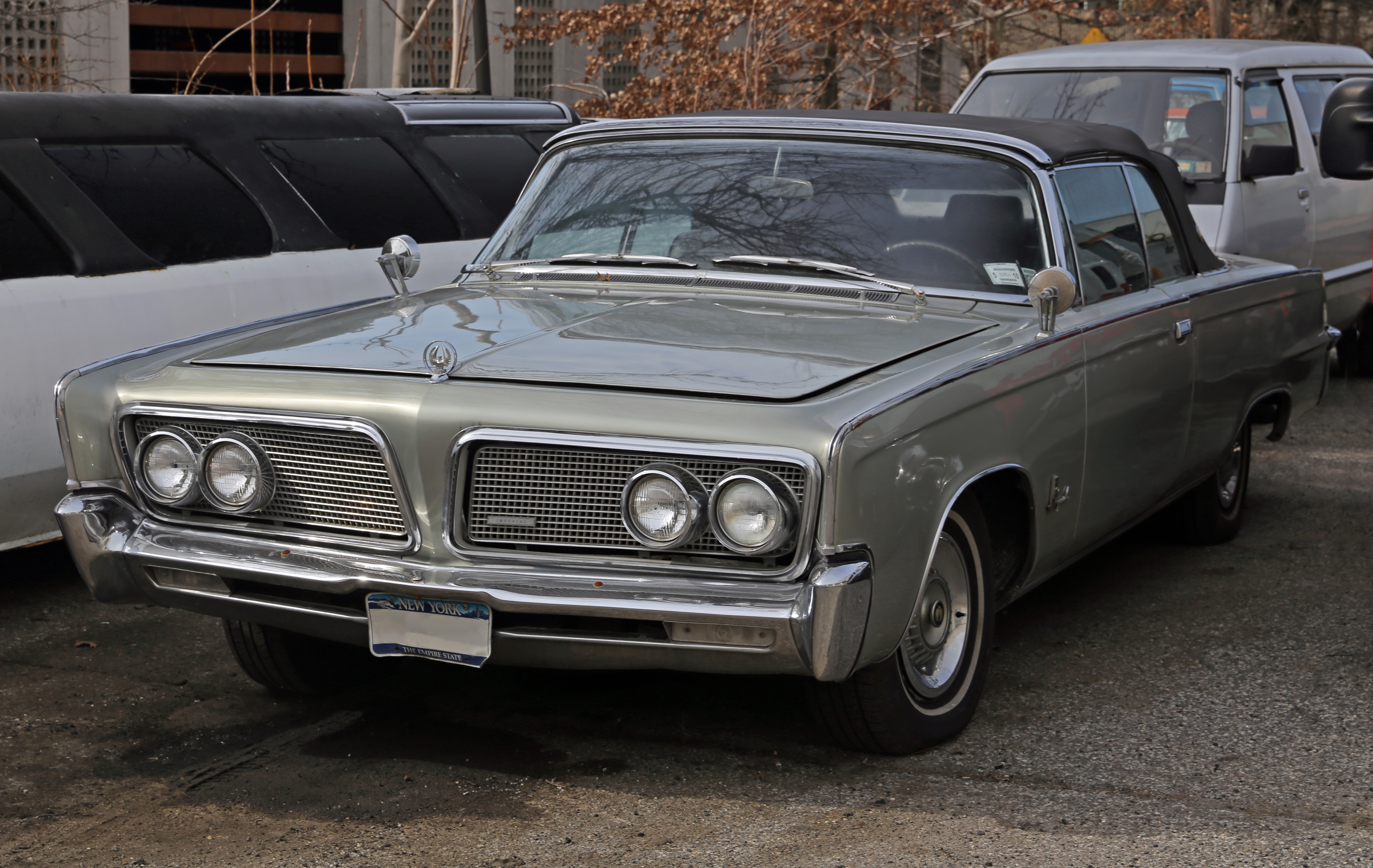 1964 Imperial Crown convertible, body style Y25. Only 922 of these were built. Behind, on the left, can be glimpsed what's left of Jay Ohrberg's "American Dream", a 100ft long limousine based on Cadillac Eldorado bits.